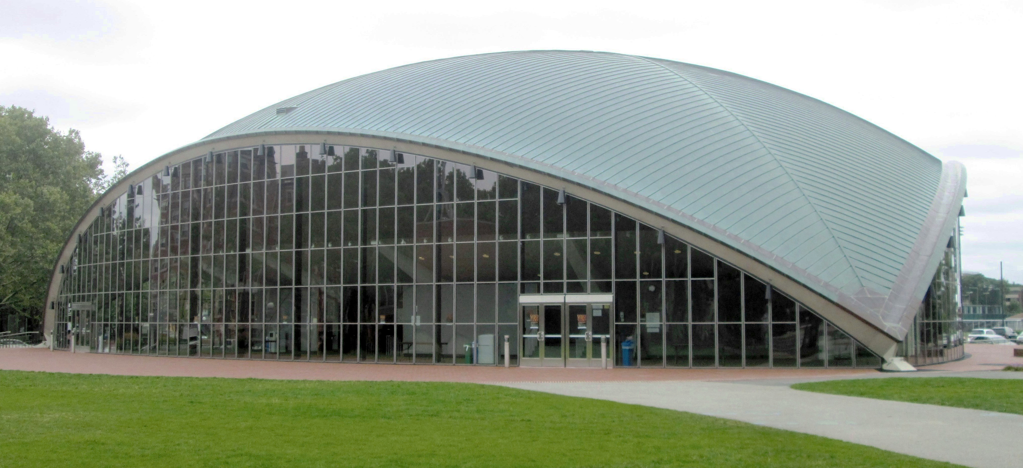 Kresge Auditorium, also known as MIT Building W16, located at 48 Massachusetts Avenue in Cambridge, Massachusetts, was built from 1954 to 1955 and was designed by Eero Saarinen. It sits near the MIT Chapel that Saarinen also designed, in the West Campus of MIT. (Source: AIA Guide to Boston.